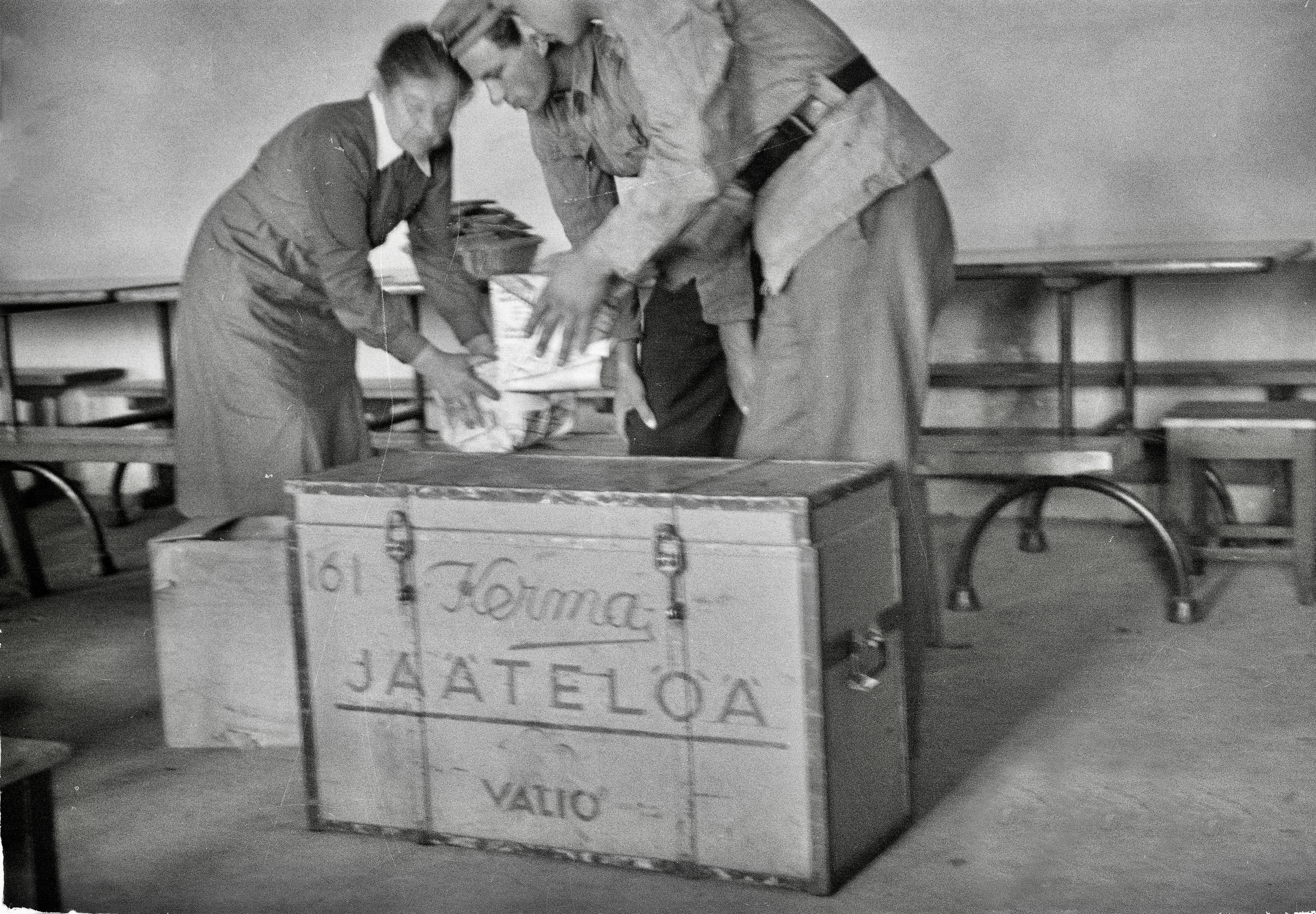 "The cantine business: Rare goods: Ice cream". Picture by Fenrik L. Zilliacus.